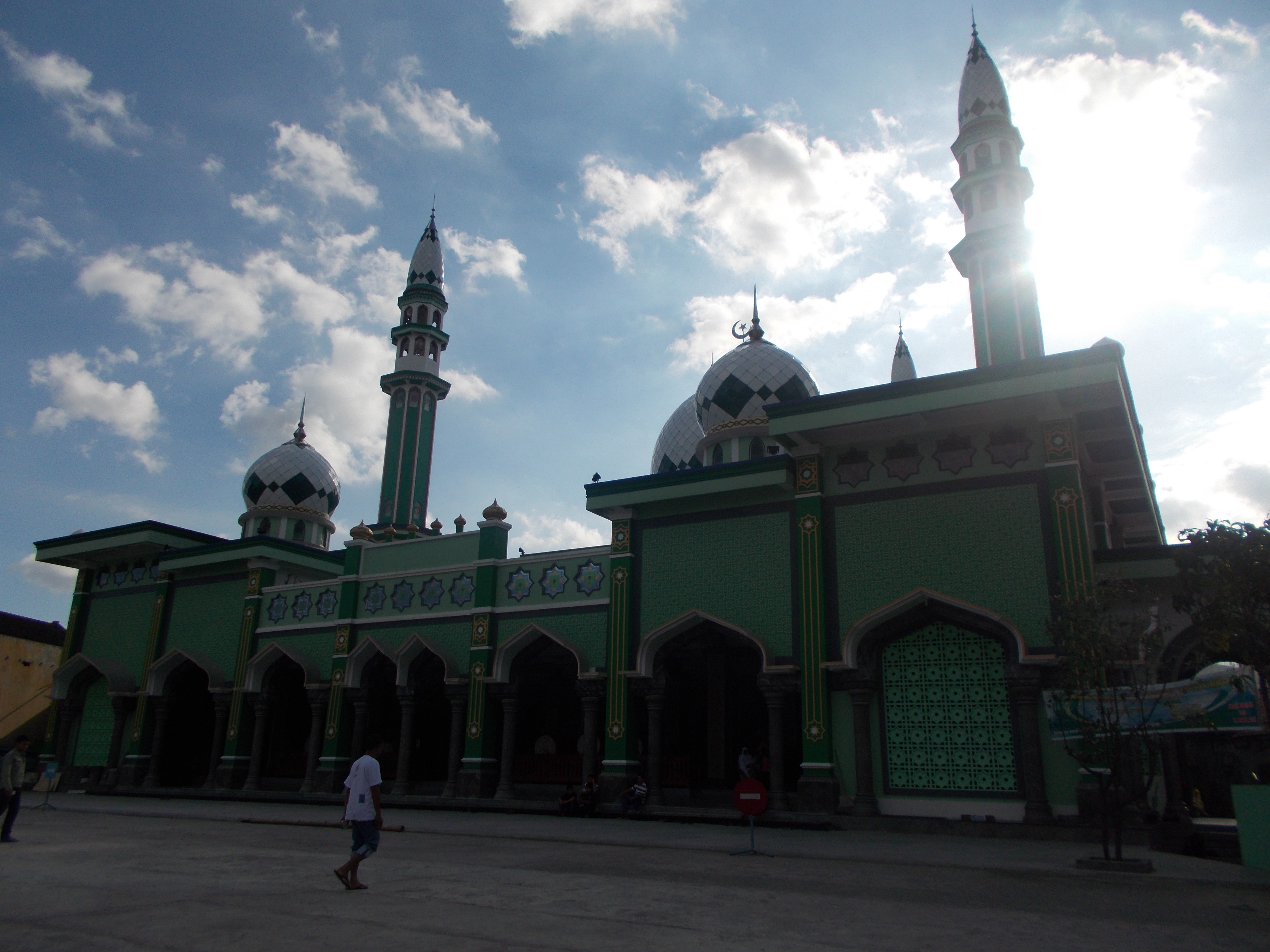 "MASJID AGUNG BAITURRAHMAN TRENGGALEK"